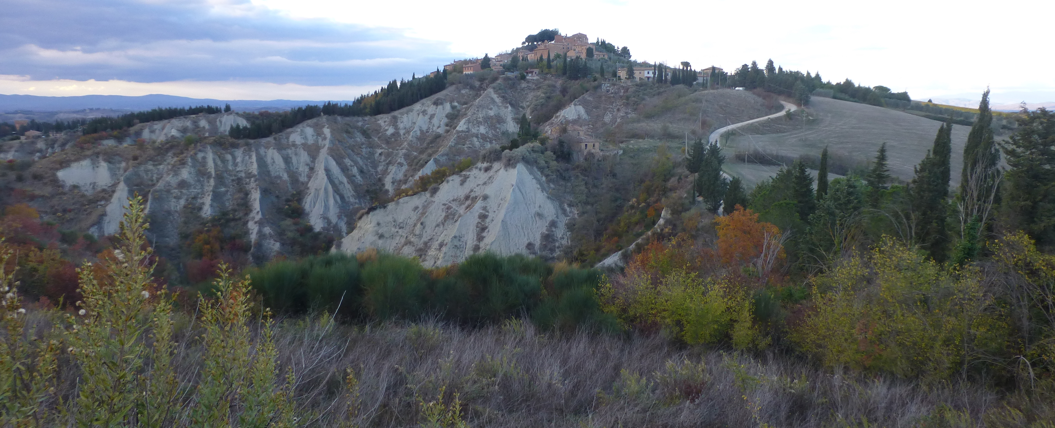 View of the gully heads (calanchi) gnawing the medieval centre of Chiusure (Asciano). To the far right is visible the tower at the entrance of the Abbey of Monte Oliveto Maggiore (the medieval Accona)